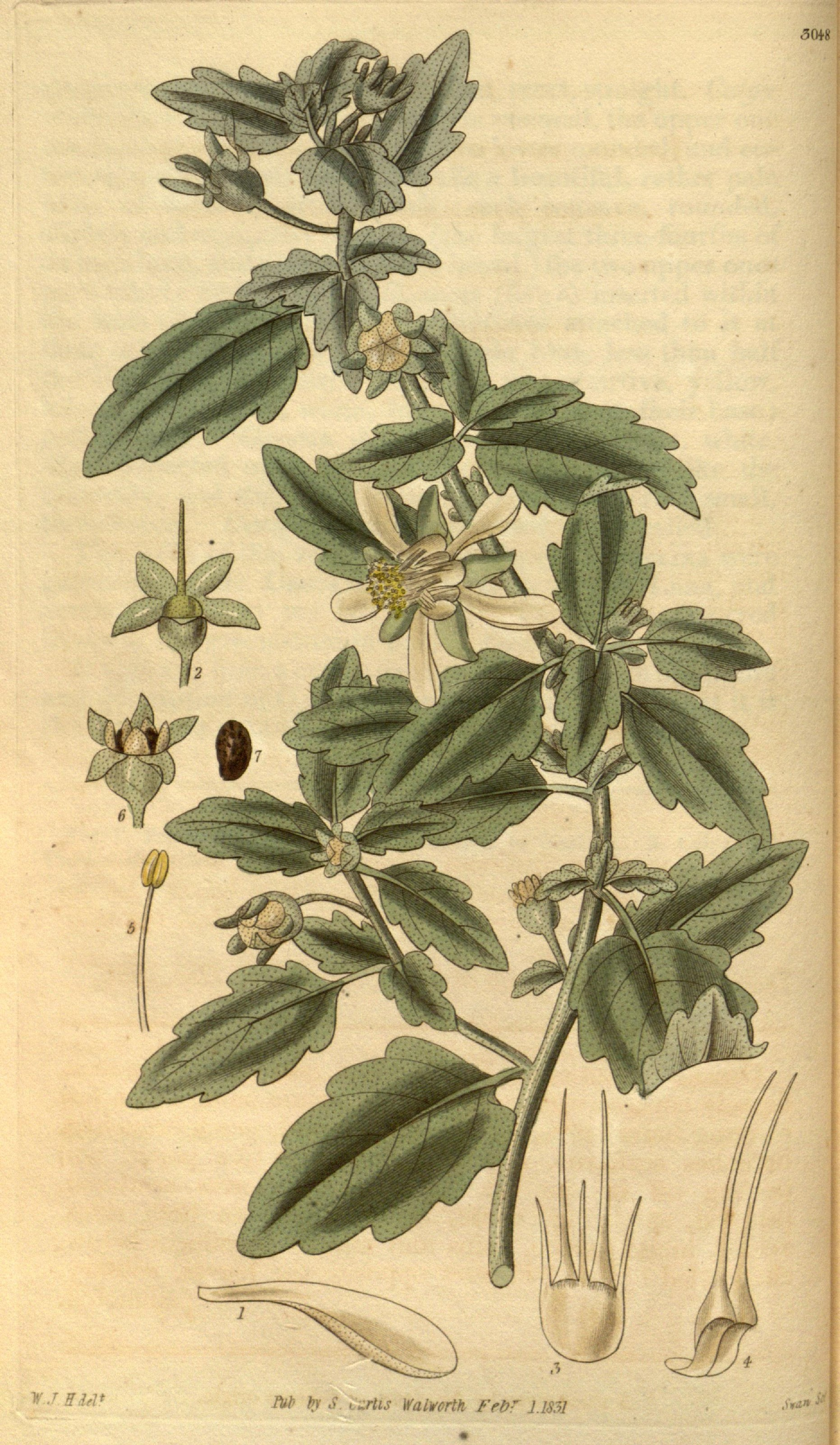 M ty S , ^rhs Walworth fe!.